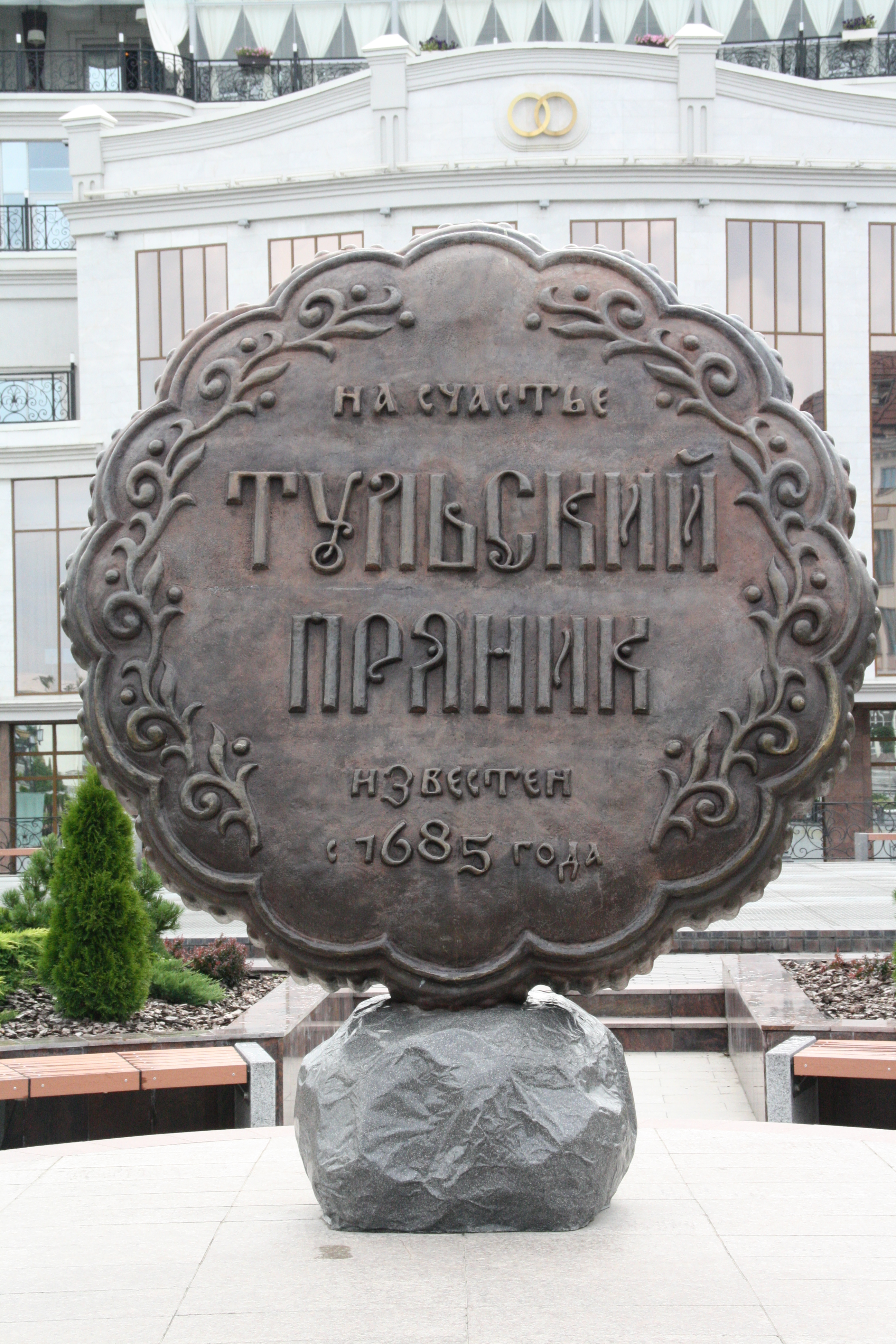 памятник прянику на площади Ленина в Туле